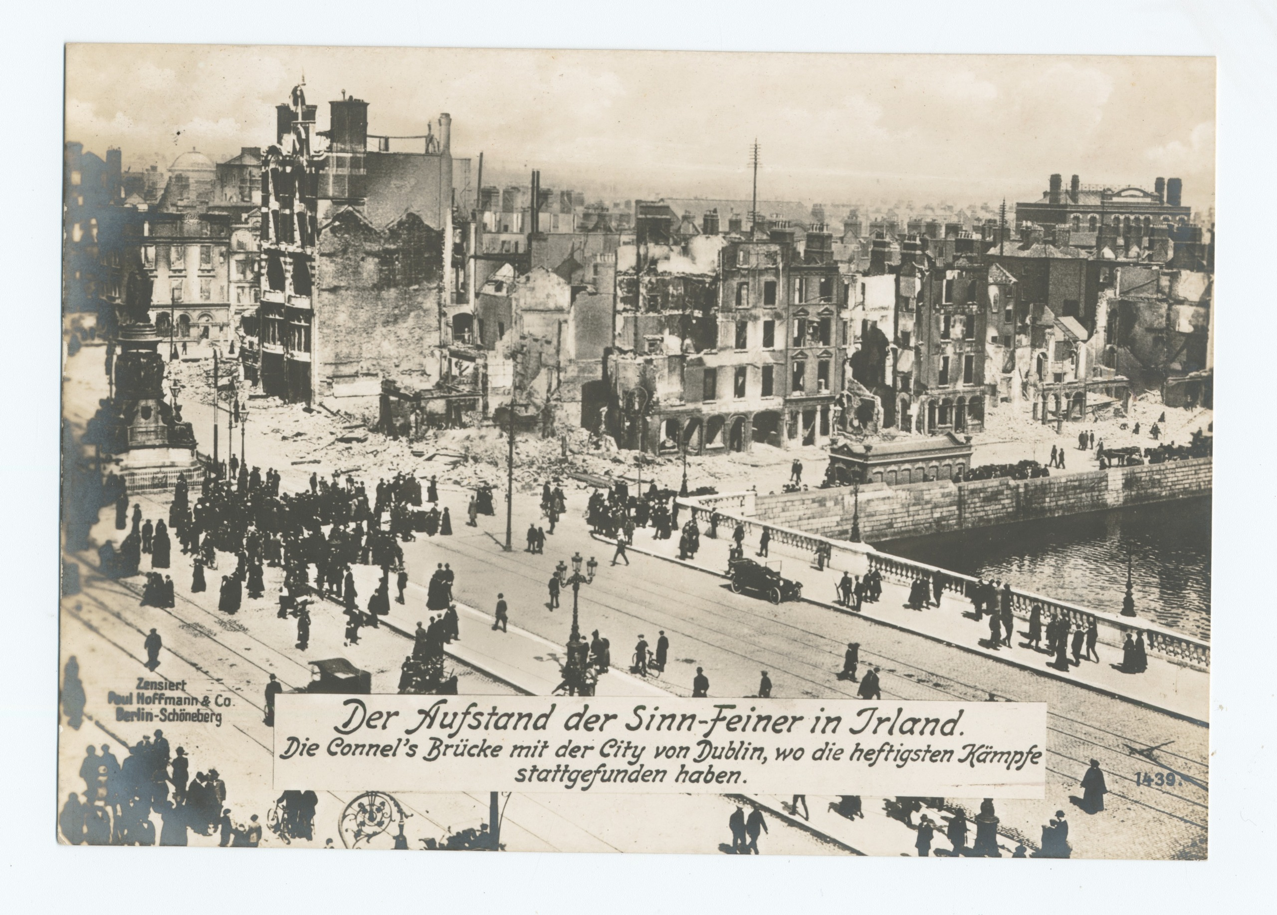 Paul Hoffmann & Co. (Publisher)